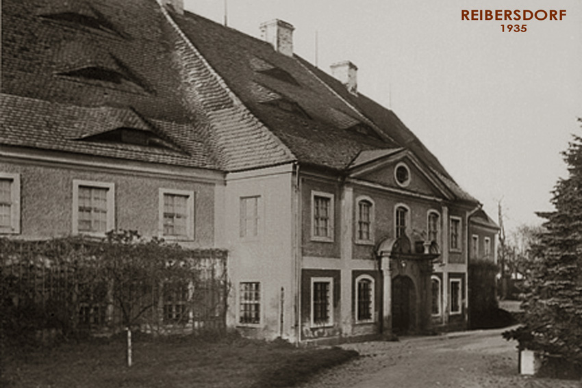 Old Palace in Rybarzowice